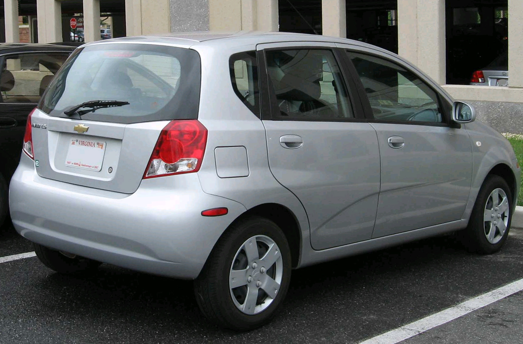 2004-2007 Chevrolet Aveo photographed in USA.